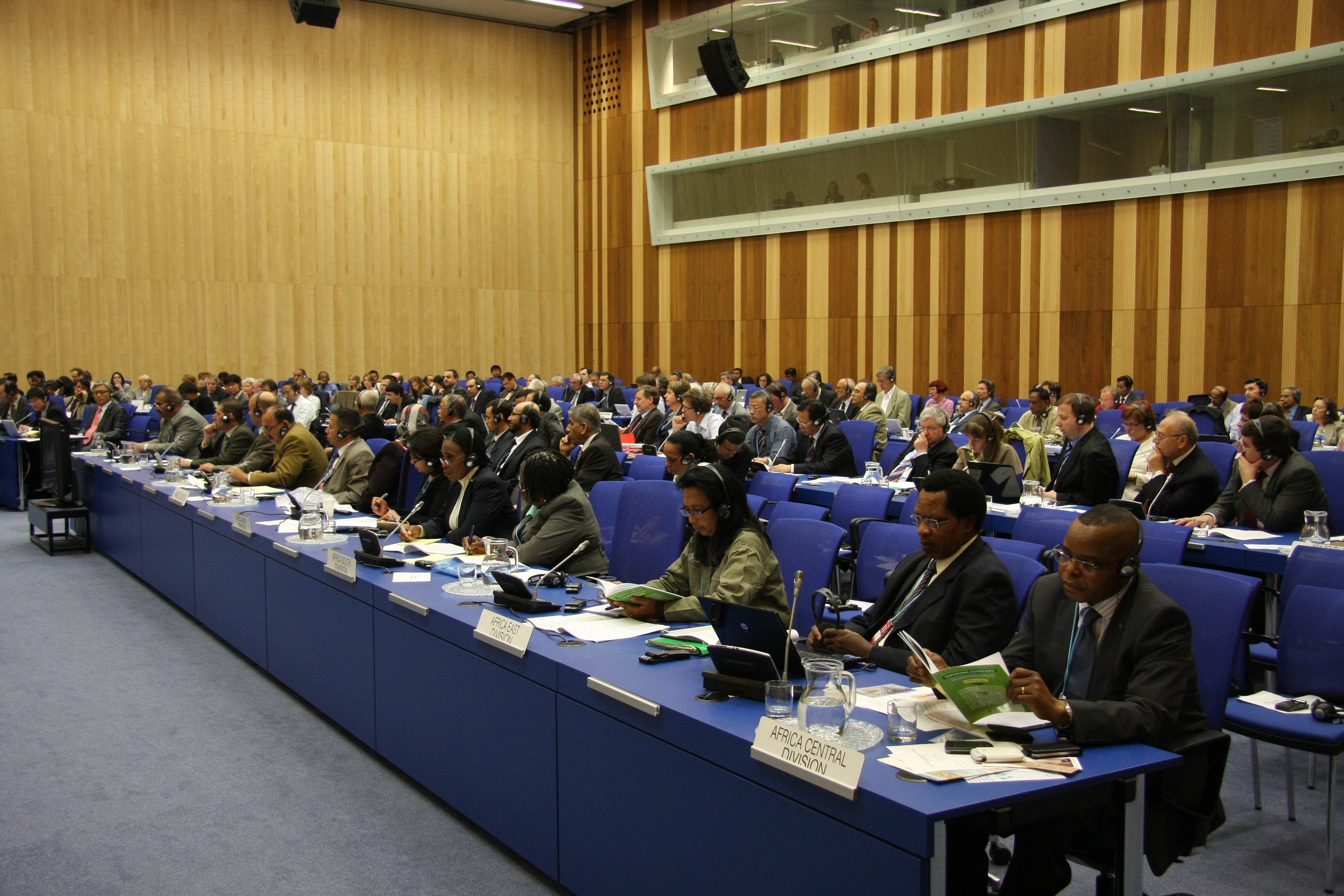 26th Session of the United Nations Group of Experts on Geographical Names – 2-6 May 2011, Vienna, Austria